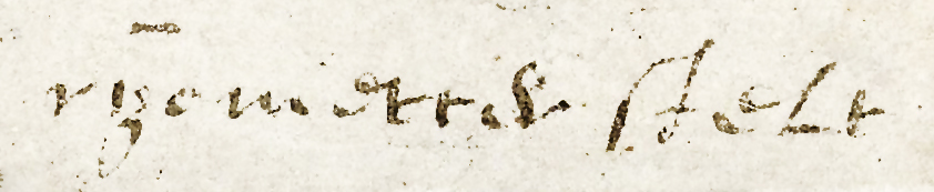 signature of Rijckaert Aertsz. off the Holy Kinship (1540)